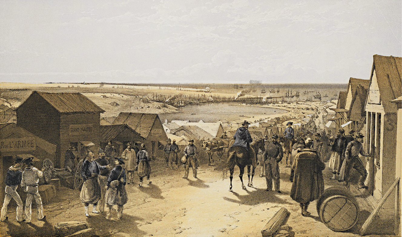 Crimean War: View of the French military camp at Kamyshova Bay, Sevastopol. Original title: Kamiesch. Titre d'origine: Kamiesch. Coloured lithograph by F. Jones after William Simpson.